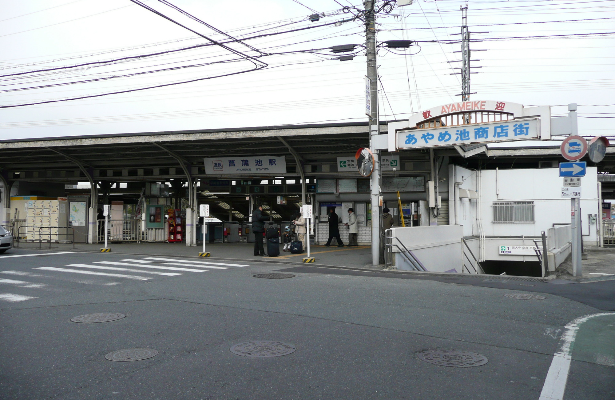 Kinki Nippon Railway,Nara Line,Ayameike Station south entrance. / 近鉄奈良線菖蒲池駅南口（なんば方面のりば）